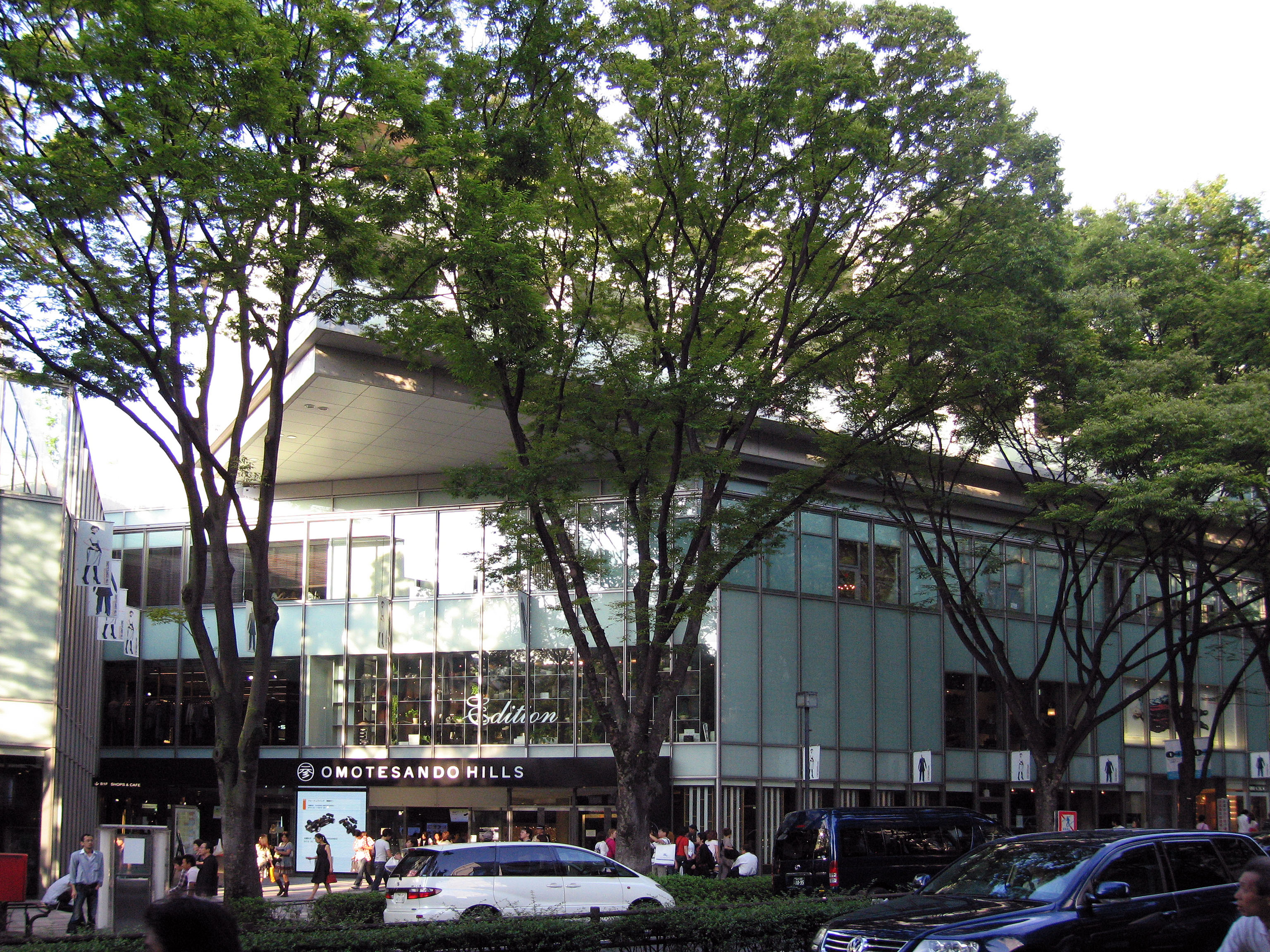 Omotesando Hills, architect: Tadao Ando, main entrance